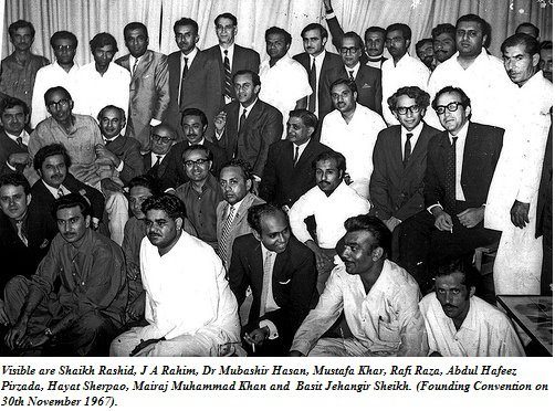 Founding Fathers of Pakistan Peoples Party! At the residence of Dr Mubashir Hassan. The pioneers of the party were progressives and socialists – they included J A Rahim, Dr Mubashir Hasan, Ghulam Mustafa Khar, Basit Jahangir, Kamal Azfar, Rafi Raza, Abdul Hafeez Pirzada, Hayat Sherpao and Meraj Muhammad Khan.